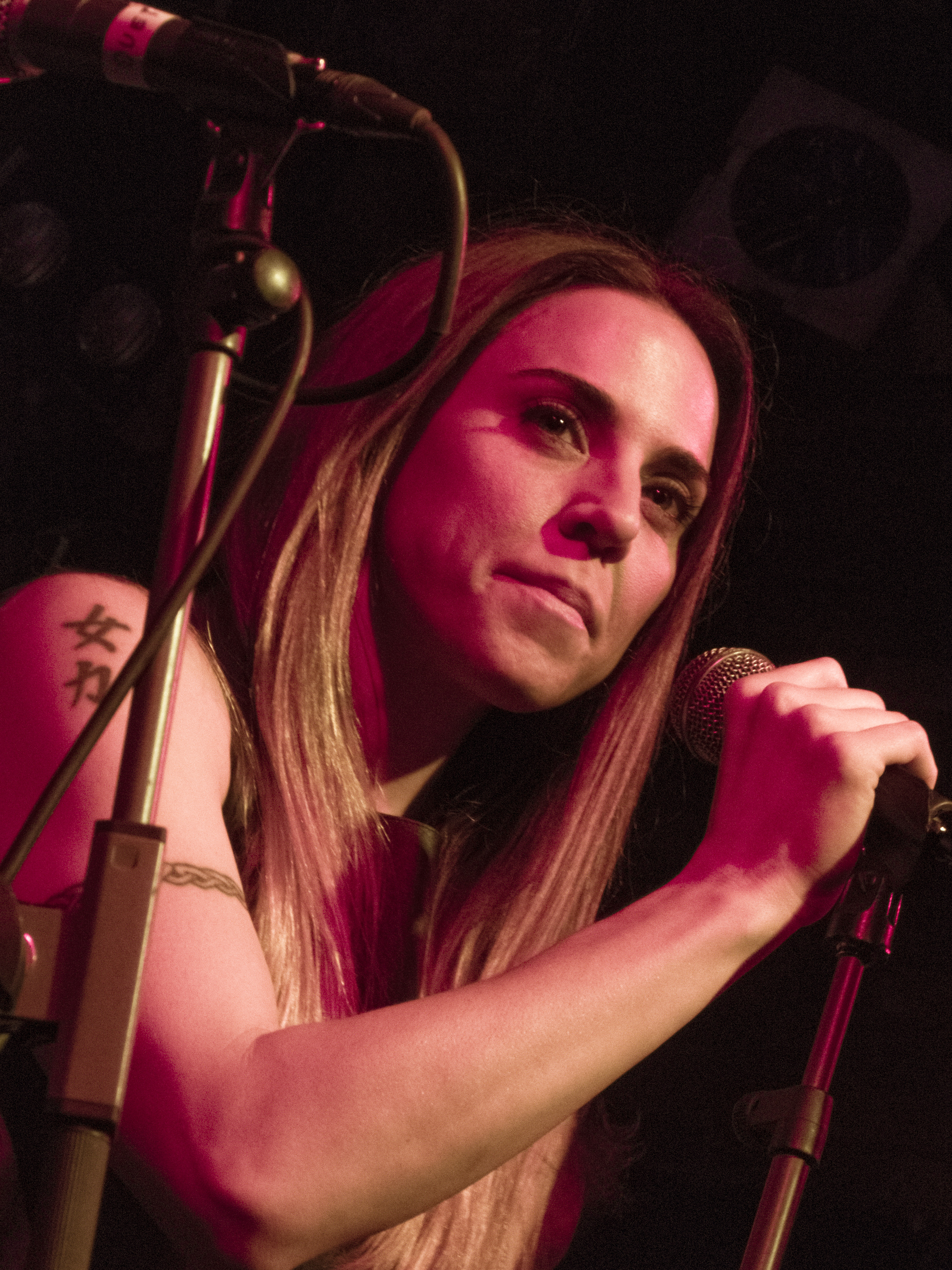 Melanie performed with the SAS Band.